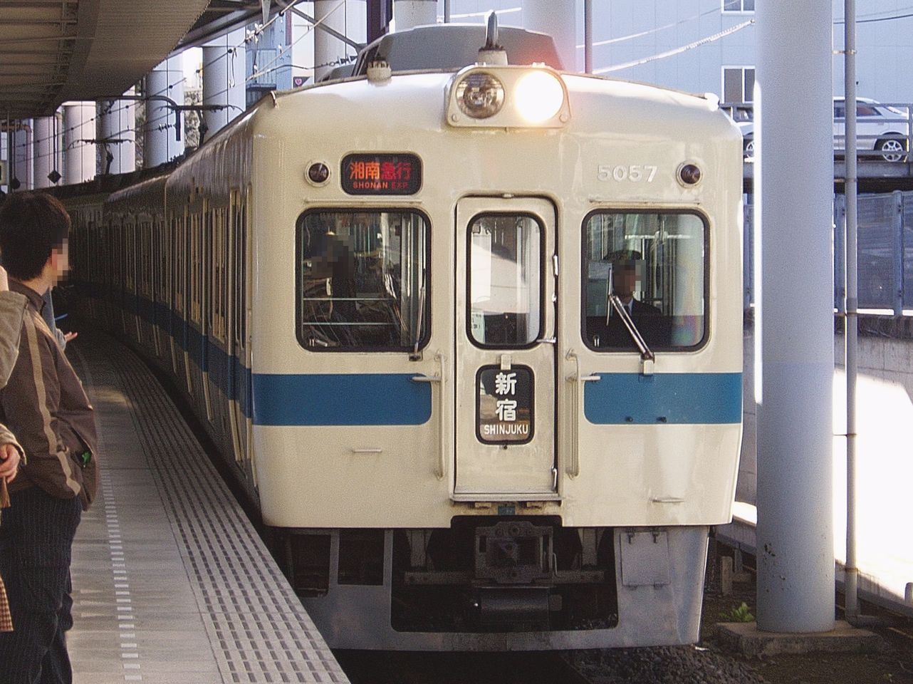 Shonan Express by EMU Type 5000 of Odakyu Electric Railway at Sagami-Ono Sta.